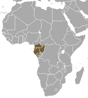 Western Gorilla (Gorilla gorilla) range